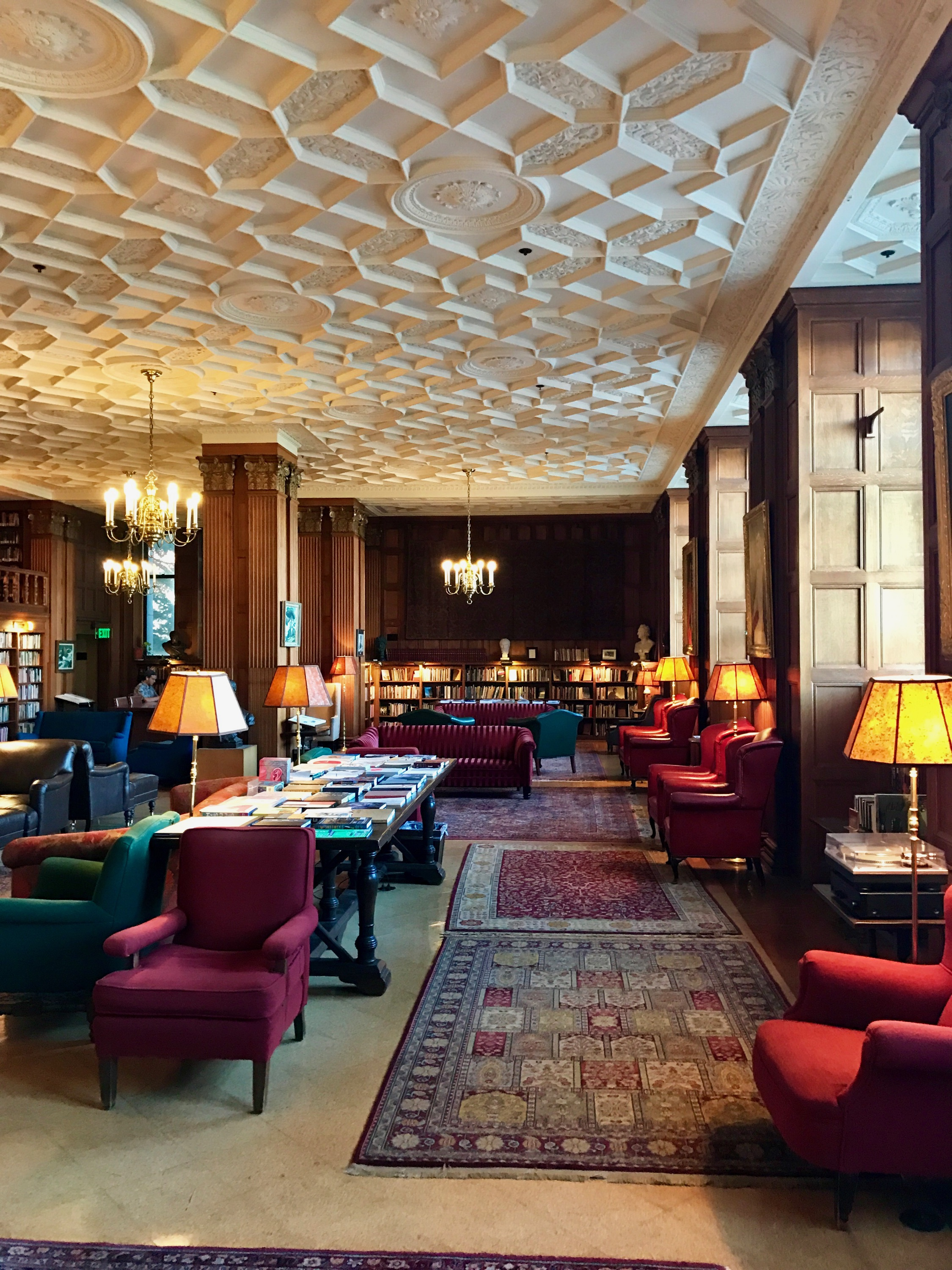 Morrison Library